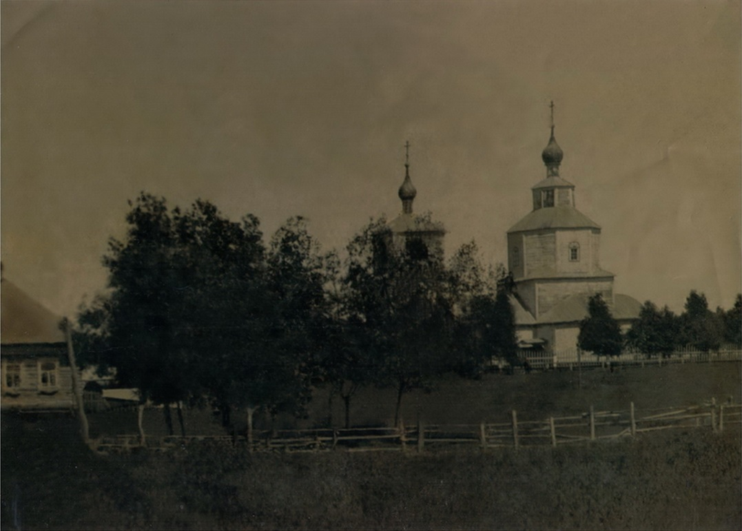 The temple in honor of the martyrs: Guriy, and Aviv Samoma in the village of Trehsvyatskoe